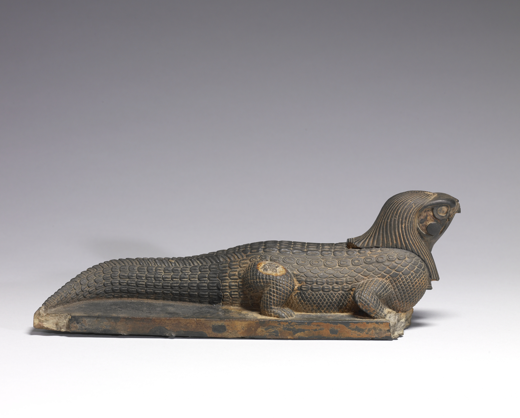 This may represent the god Horus the Elder, who is occasionally shown with a falcon head and a crocodile body, or a combination of the crocodile-god Sobek with the sun-god Re. A crowning element once completed the work.